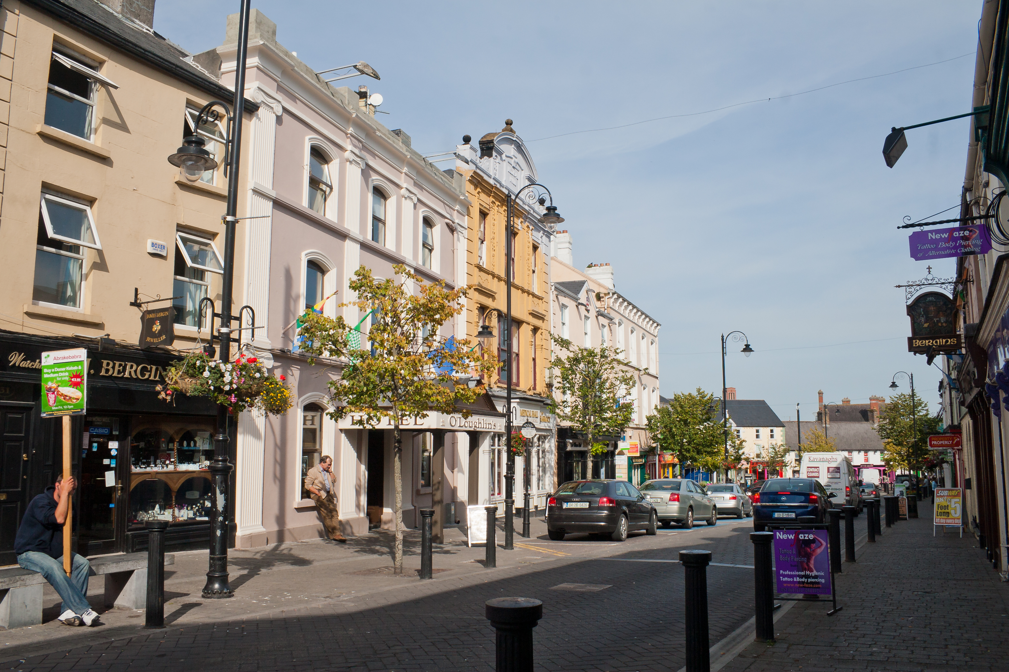 Main Street of Portlaoise, looking north-east.